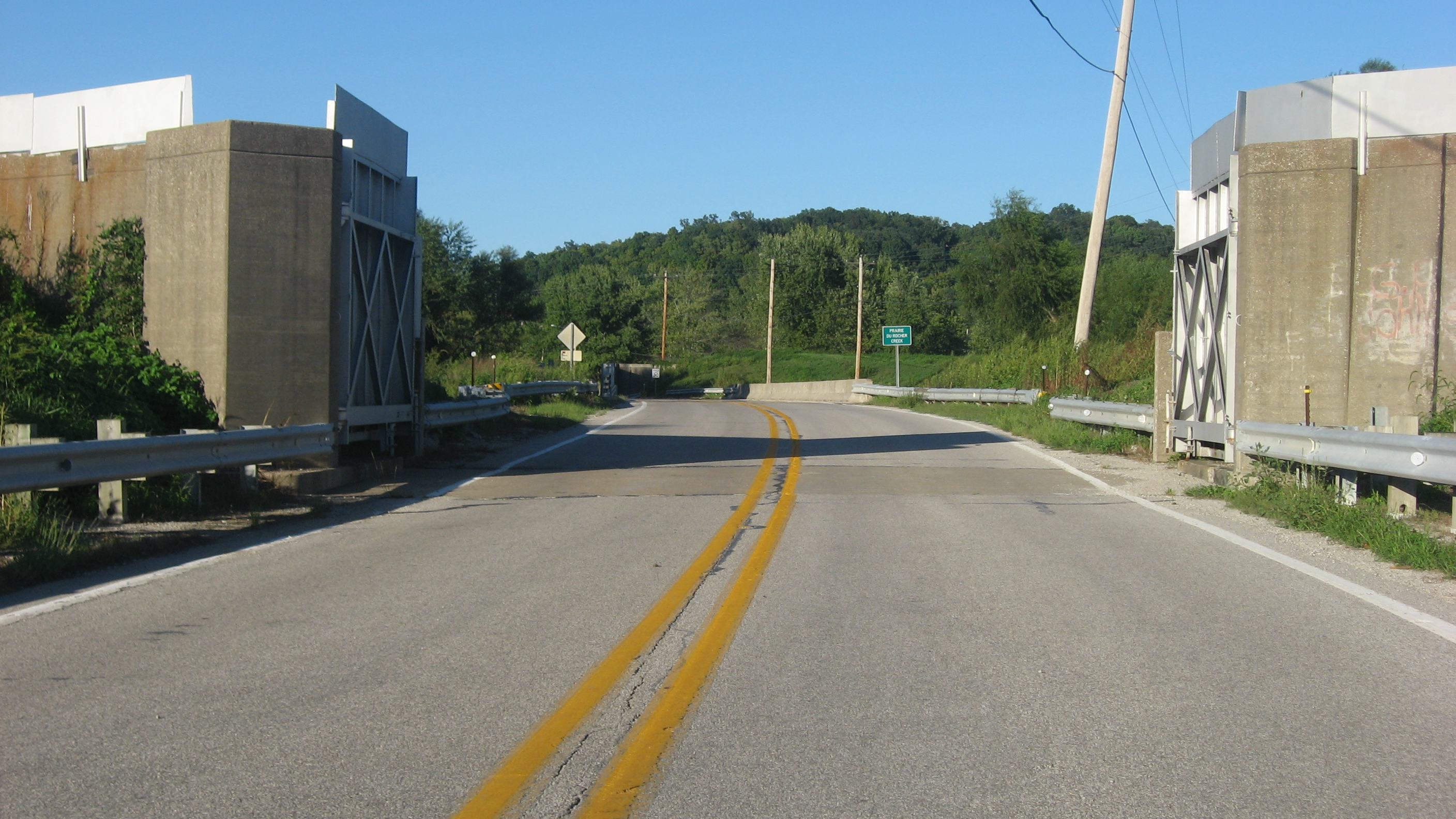 Approaching the floodgates in the dyke at Prairie du Rocher, Illinois, United States. View looks northeastward along Illinois Route 155 toward the areas within the dyke from the areas without it.